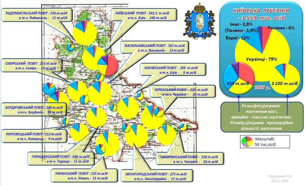 Ethnic groups Kiev province by 1897 censusРоман Днепр (talk) 12:24, 2 November 2010 (UTC)